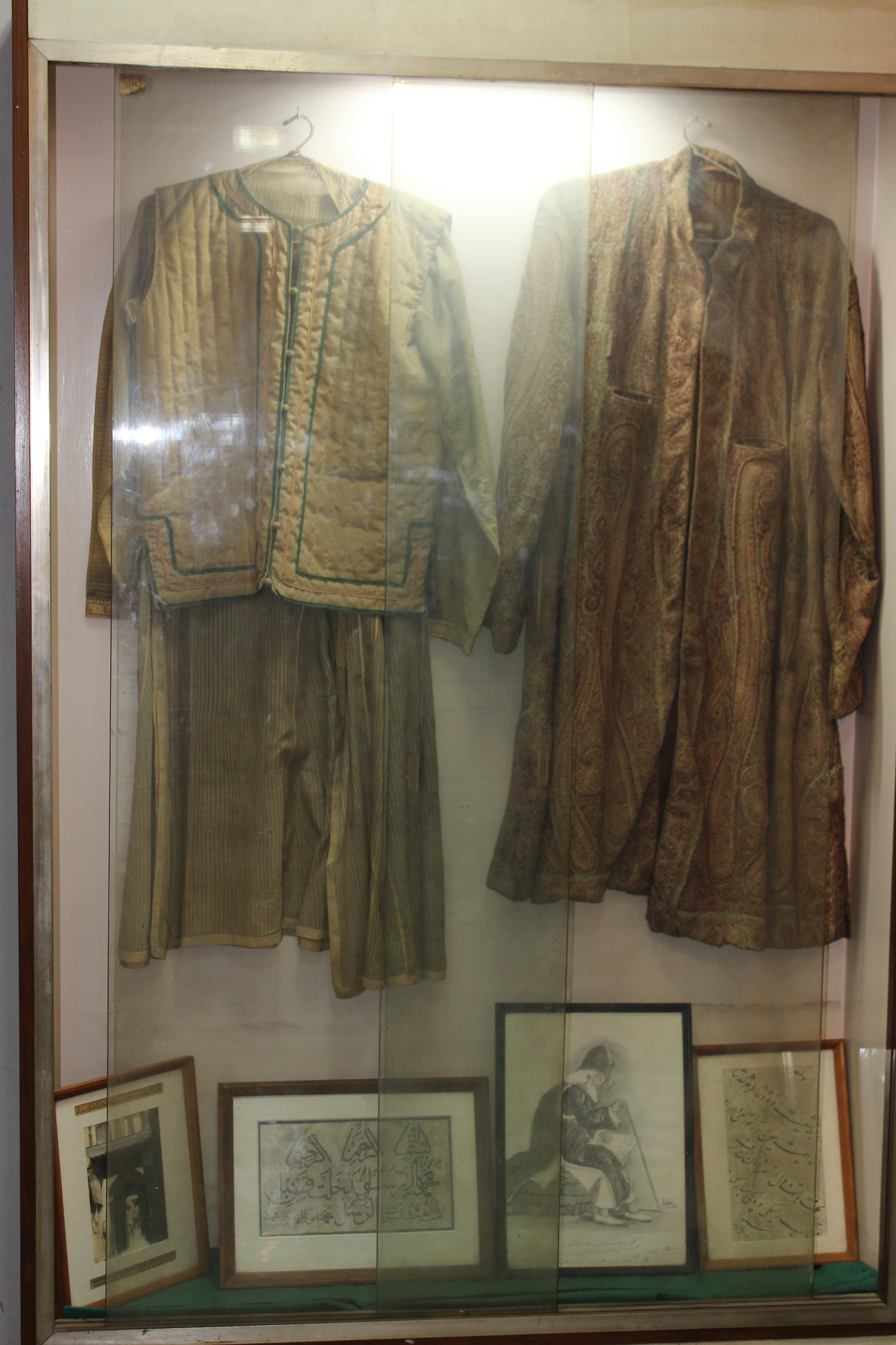 inside the ghalib museum where his cloth can be seen